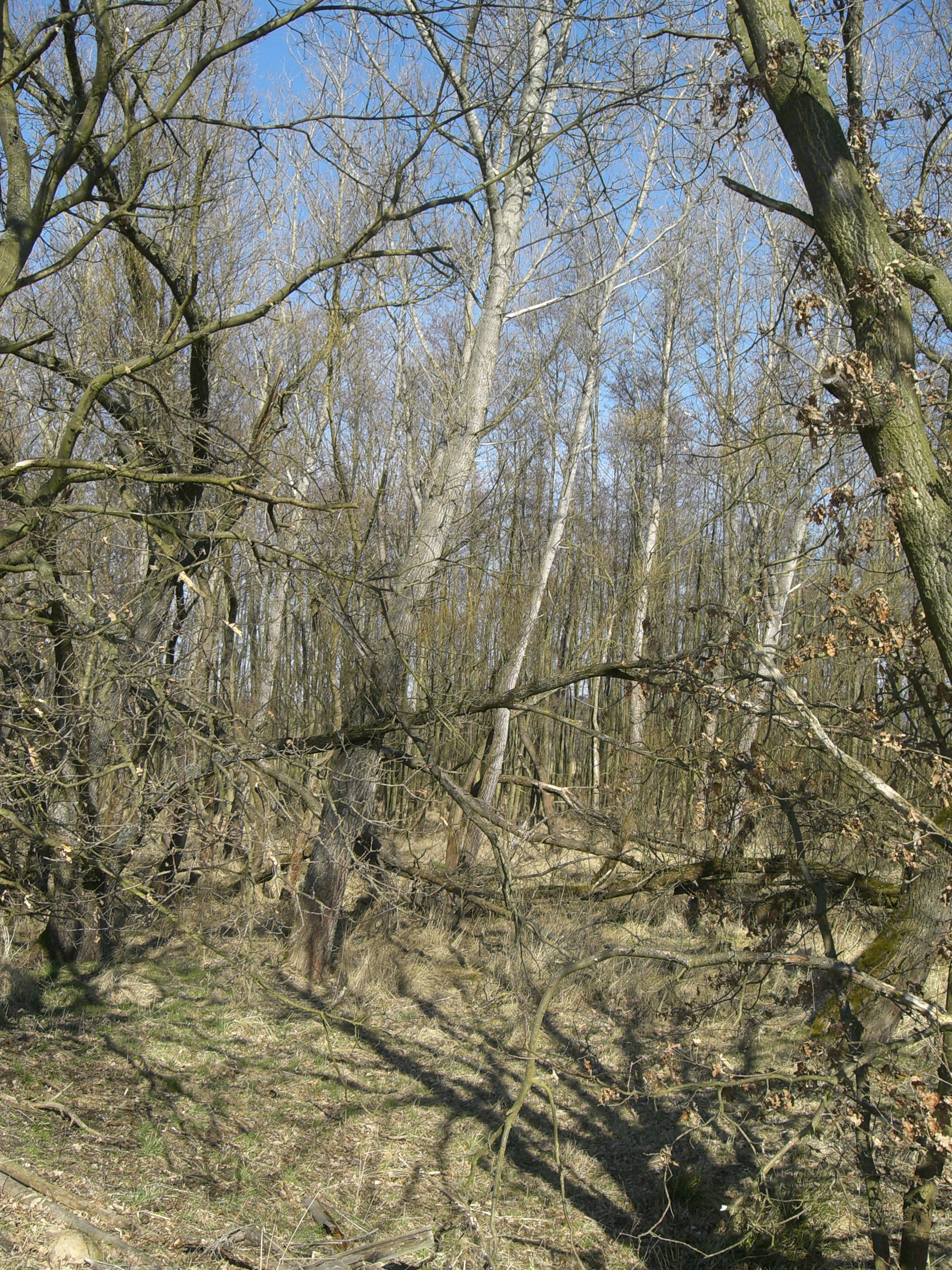 Skalský rybník - nature reservation in Písek district, Czech Republic.